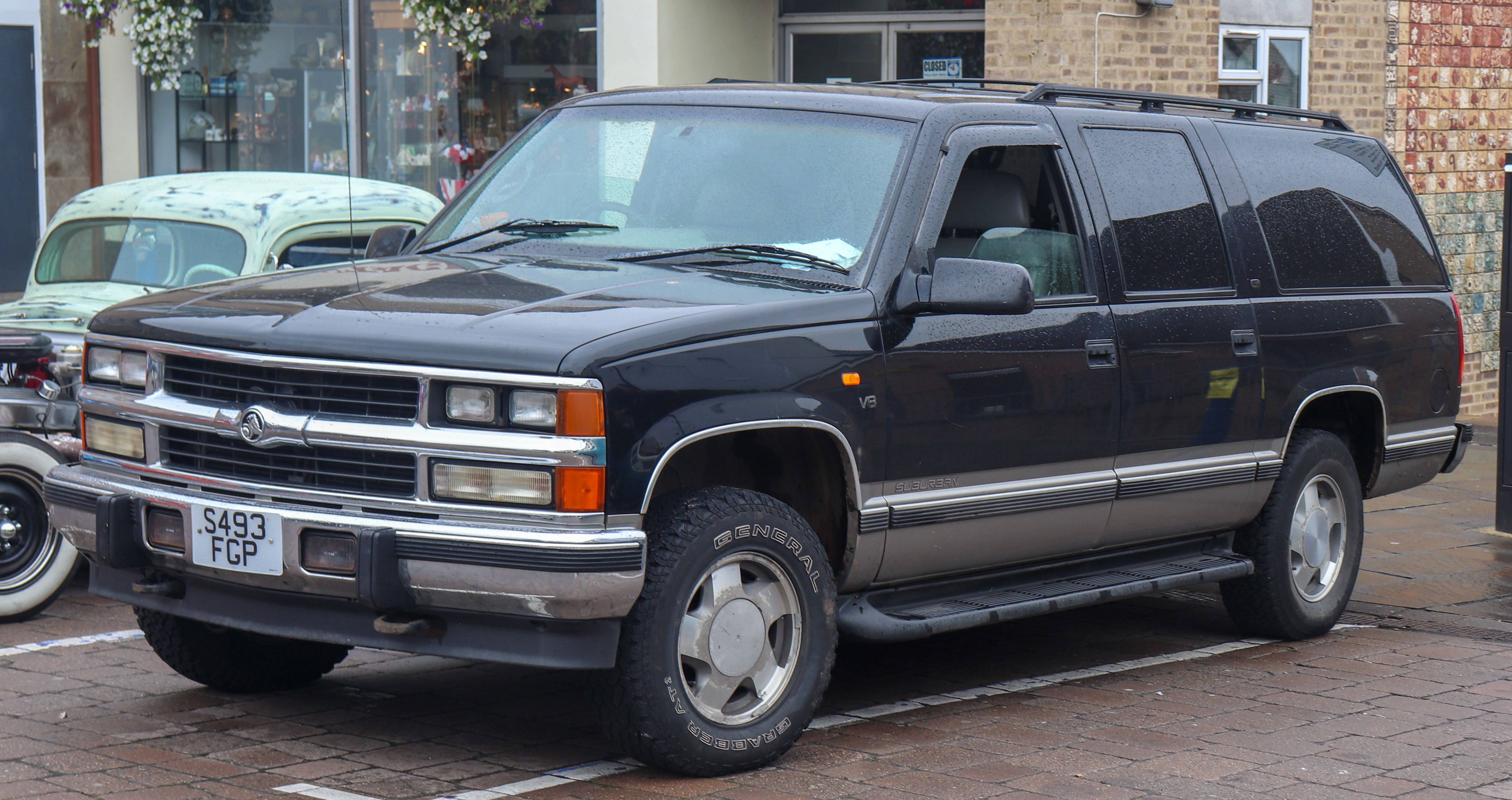 1998 Holden Suburban 1500 V8 5.7 Taken at the 2018 Warwick Classic Car Show